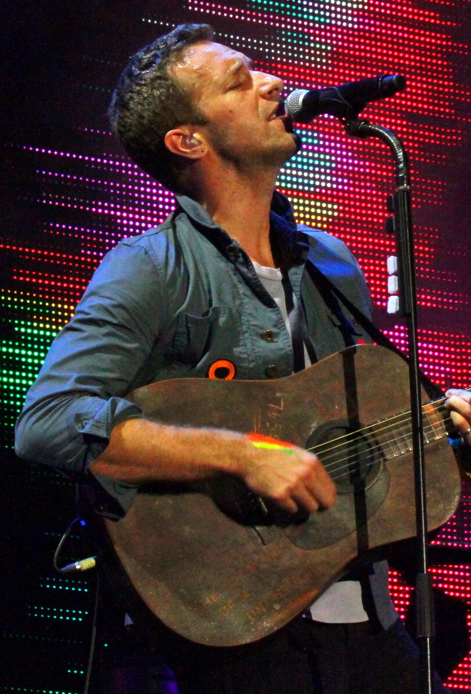 Chris Martin, performing with Coldplay, at the Naeba Ski Resort, Niigata, Japan, as part of the 2011 Fuji Rock Festival.